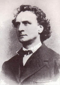 Junius Brutus Booth, Jr. (1821-1883) American actor and theatre manager, brother of John Wilkes Booth.